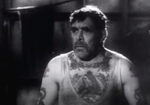 Gunner Moir in the 1936 film Phantom Ship. Moir was a retired professional boxer turned movie actor.